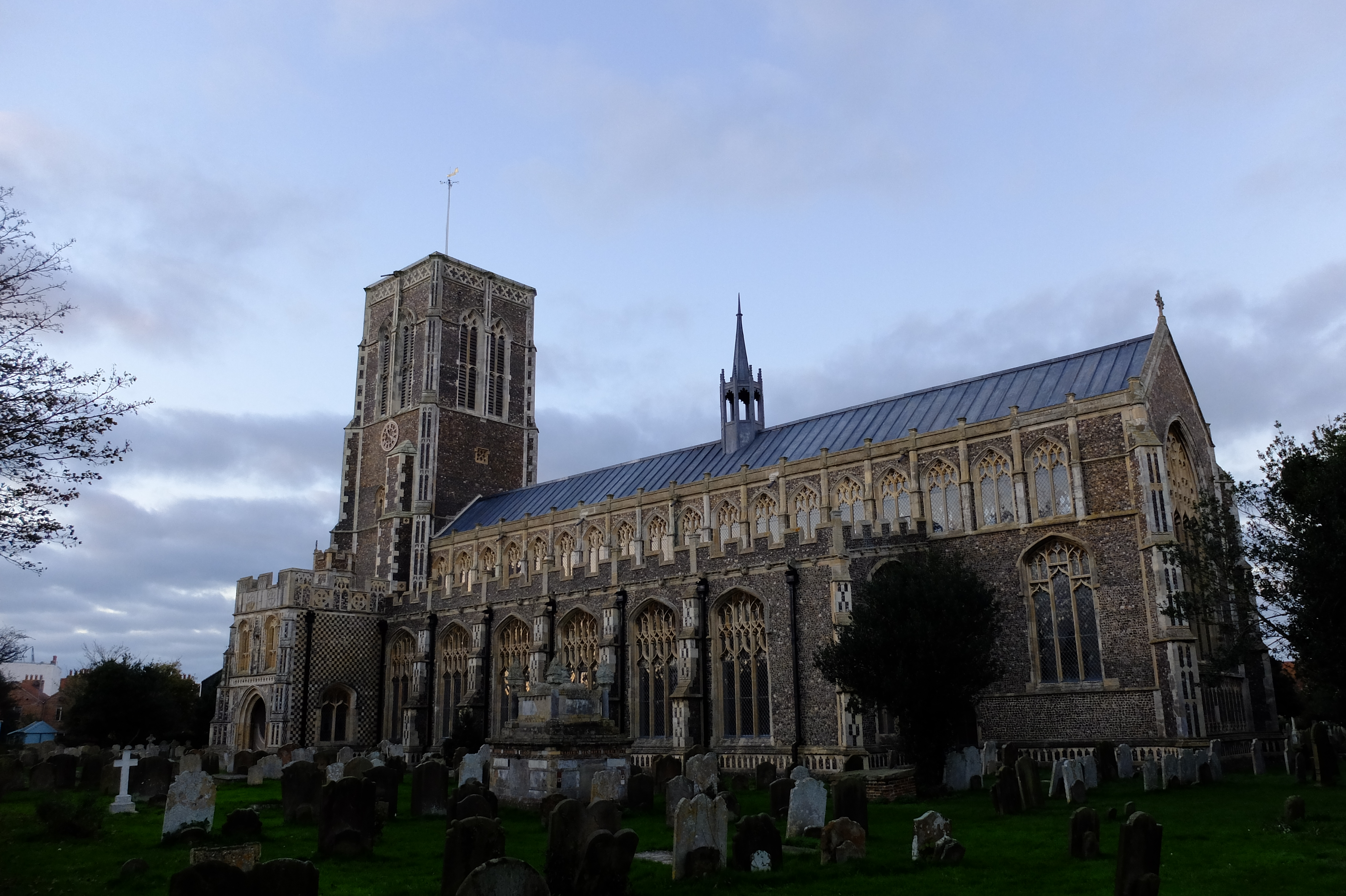 St Edmund's Church, Southwold - The church following 2015 re-roofing, (The lead roof installation was completed, as a comparison to older photos which have a green copper roof.)